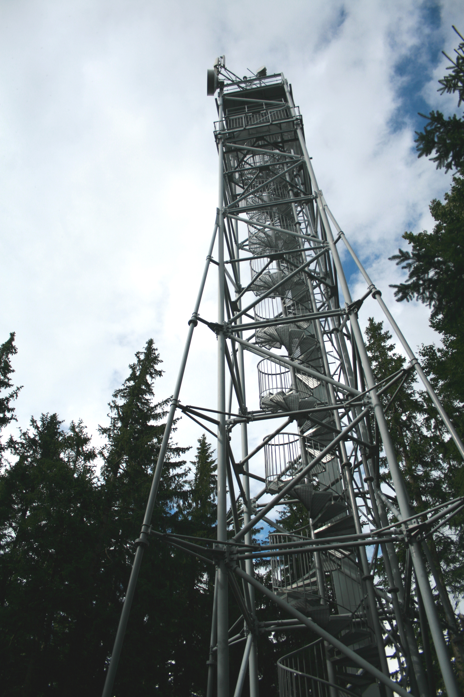 Observation tower on Kraví hora over Hojná Voda, part of Horní Stropnice, south Bohemia, Czech Republic.